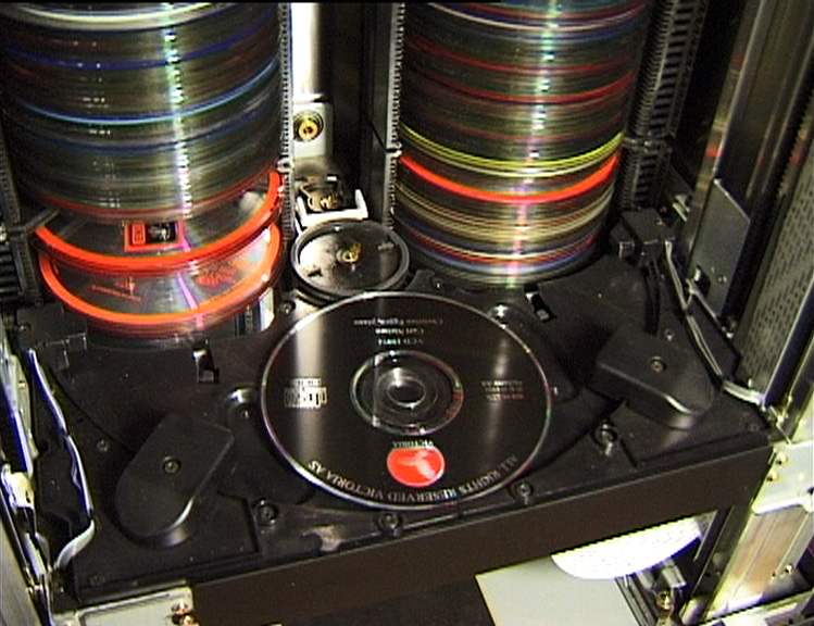 CD jukebox used in Norwegian Broadcasting Corp. radio channel NRK Alltid Klassisk, the first European all-digital radio channel.